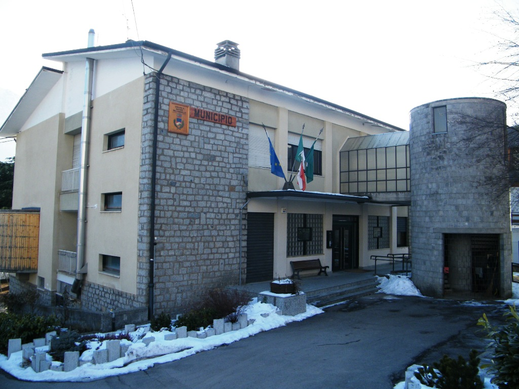 Townhall. Saviore dell'Adamello, Val Camonica.